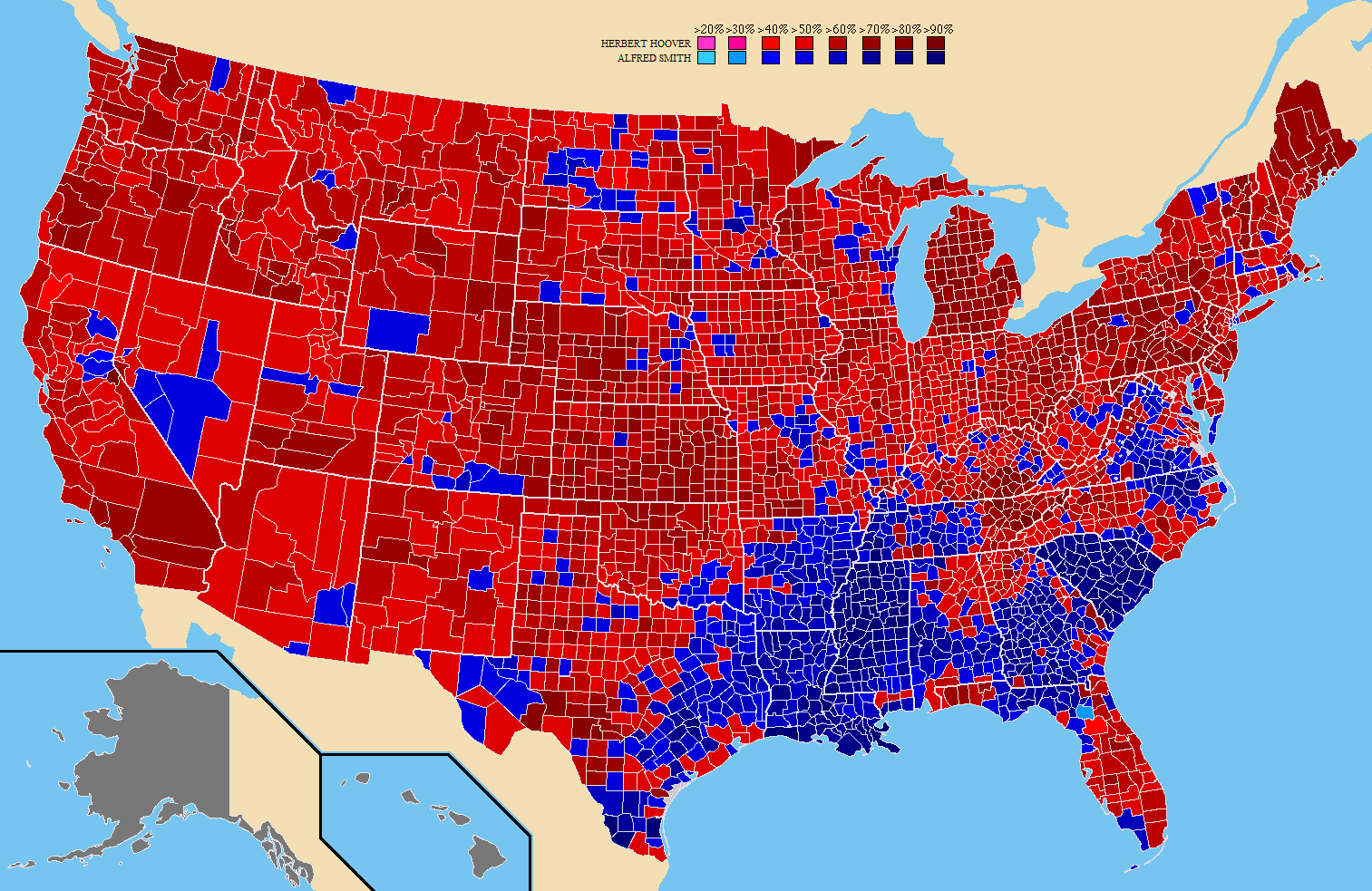 A map of the counties won by each candidate in the United States presidential election.